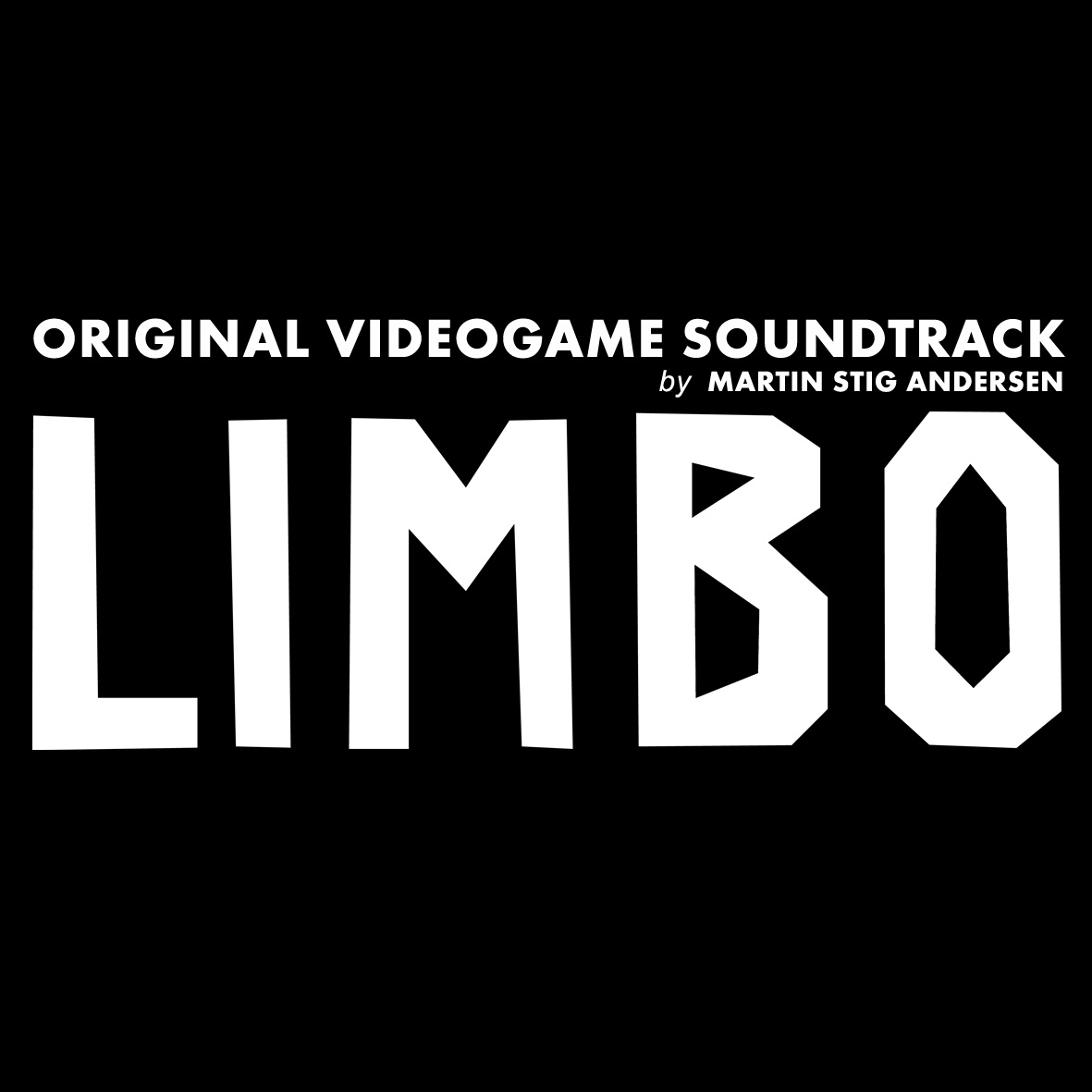 Cover image of the soundtrack for the video game Limbo